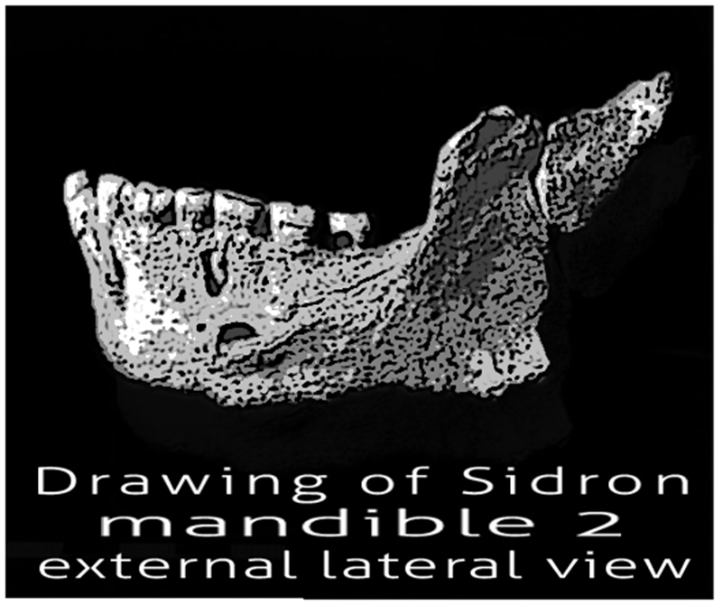 image of Neanderthal fossil "Mandible 2" discovered in 1994 in the Sidron Cave, Asturia, Spain